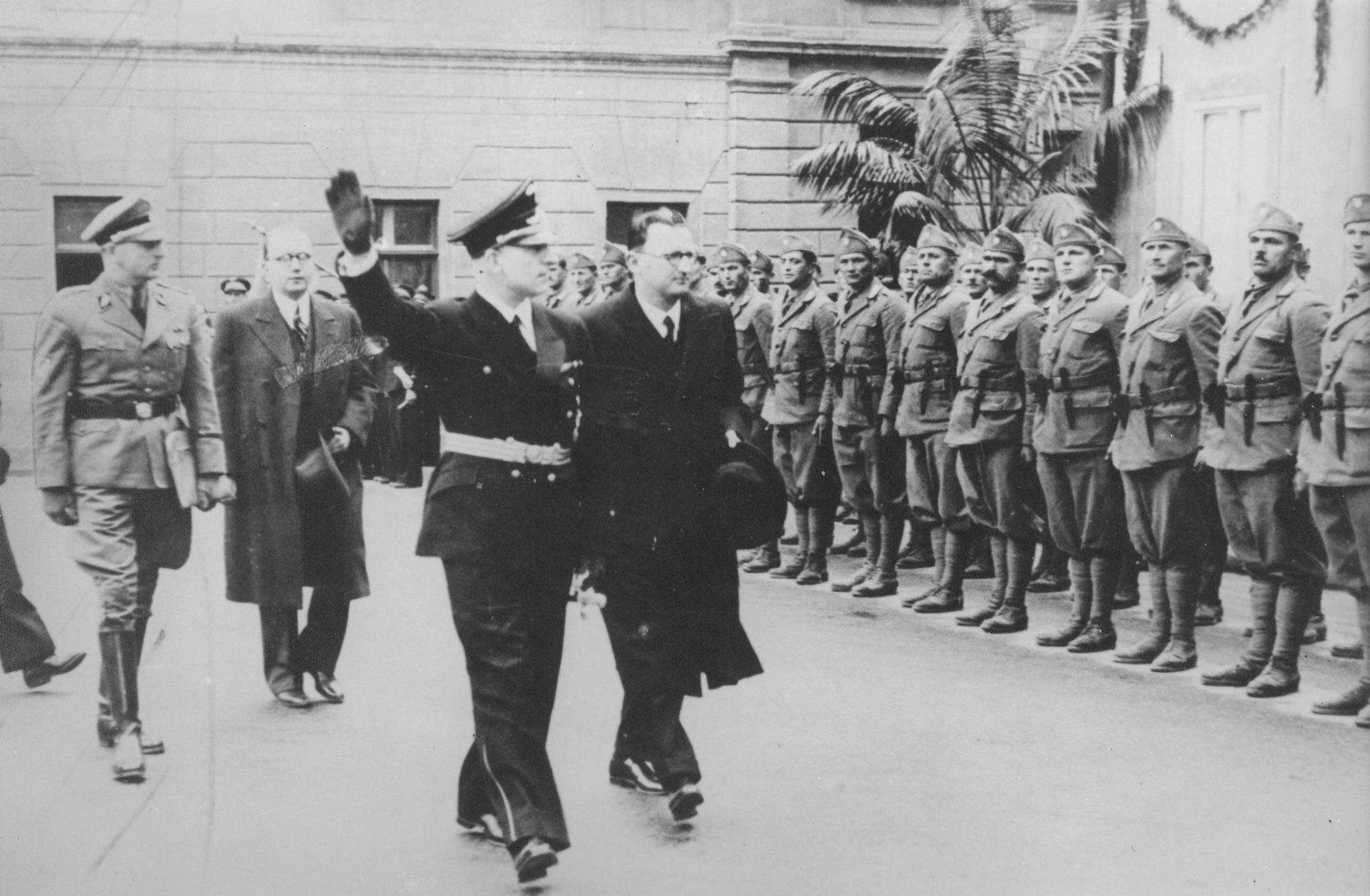 German Ambassador to the Independent State of Croatia Siegfried Kasche accompanied by Croatia's Foreign Minister Mladen Lorković in Zagreb.